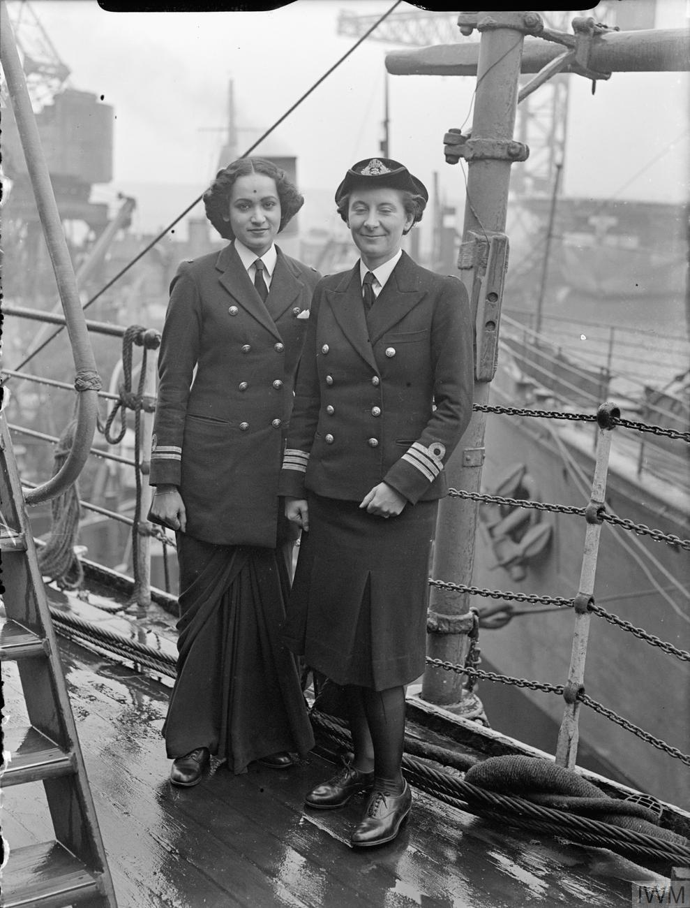 Indian Wrens Visit Rosyth, 3 June 1945 Chief Officer Margaret L Cooper, Deputy Director of the Women's Royal Indian Naval Service (WRINS), with Second Officer Kalyani Sen, WRINS at Rosyth during their two month study visit to Britain.